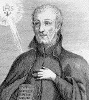 Engraving of Alessandro Valignano from the 17th century